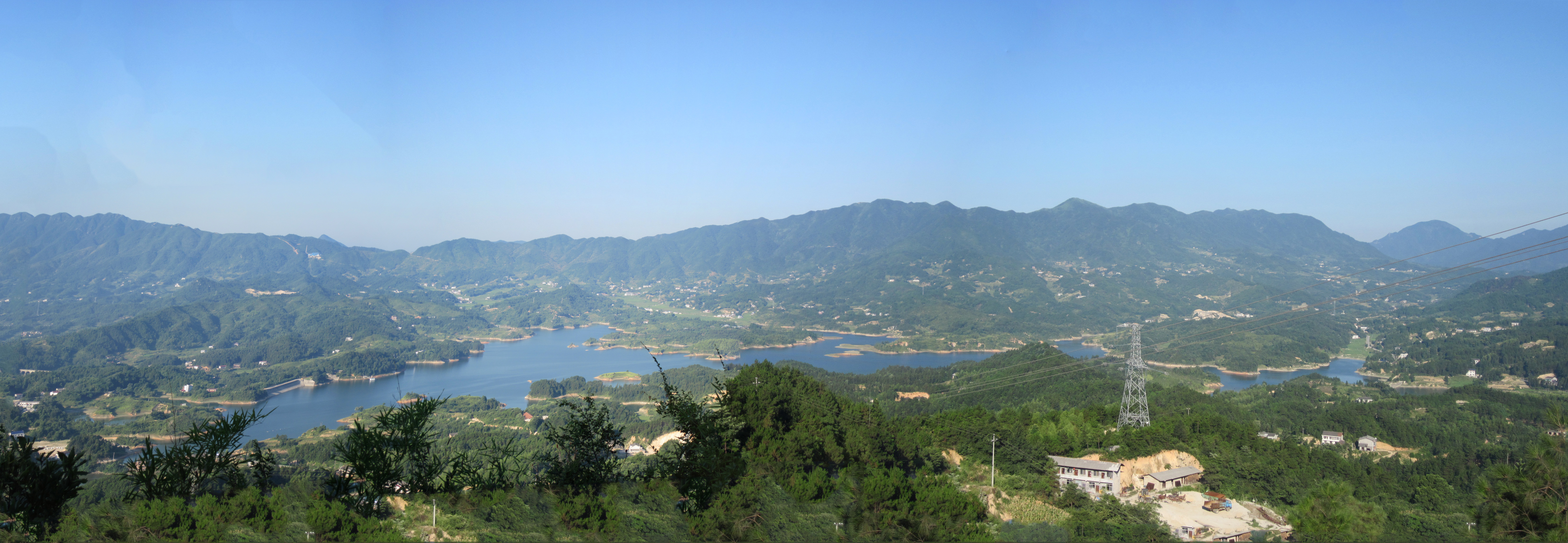 Puji Temple (Chinese: 普济寺; pinyin: Pǔjì sì) is a Buddhist temple located in Qing Shanqiao Town,Ningxiang County,Changsha City,Hunan province, China.